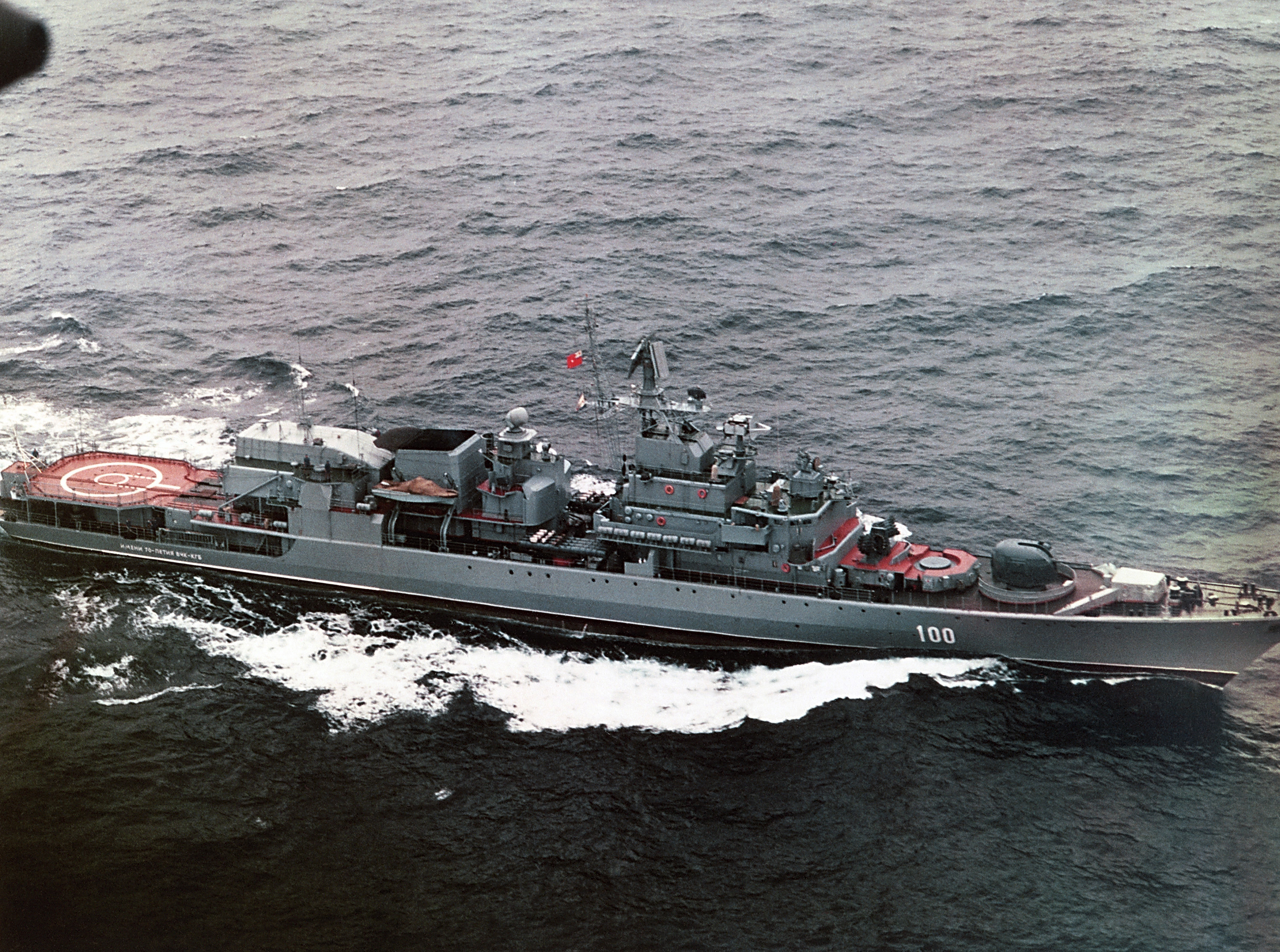 A starboard view of the Soviet Krivak III class frigate Imeni 70-letiya VCheKa-KGB underway.